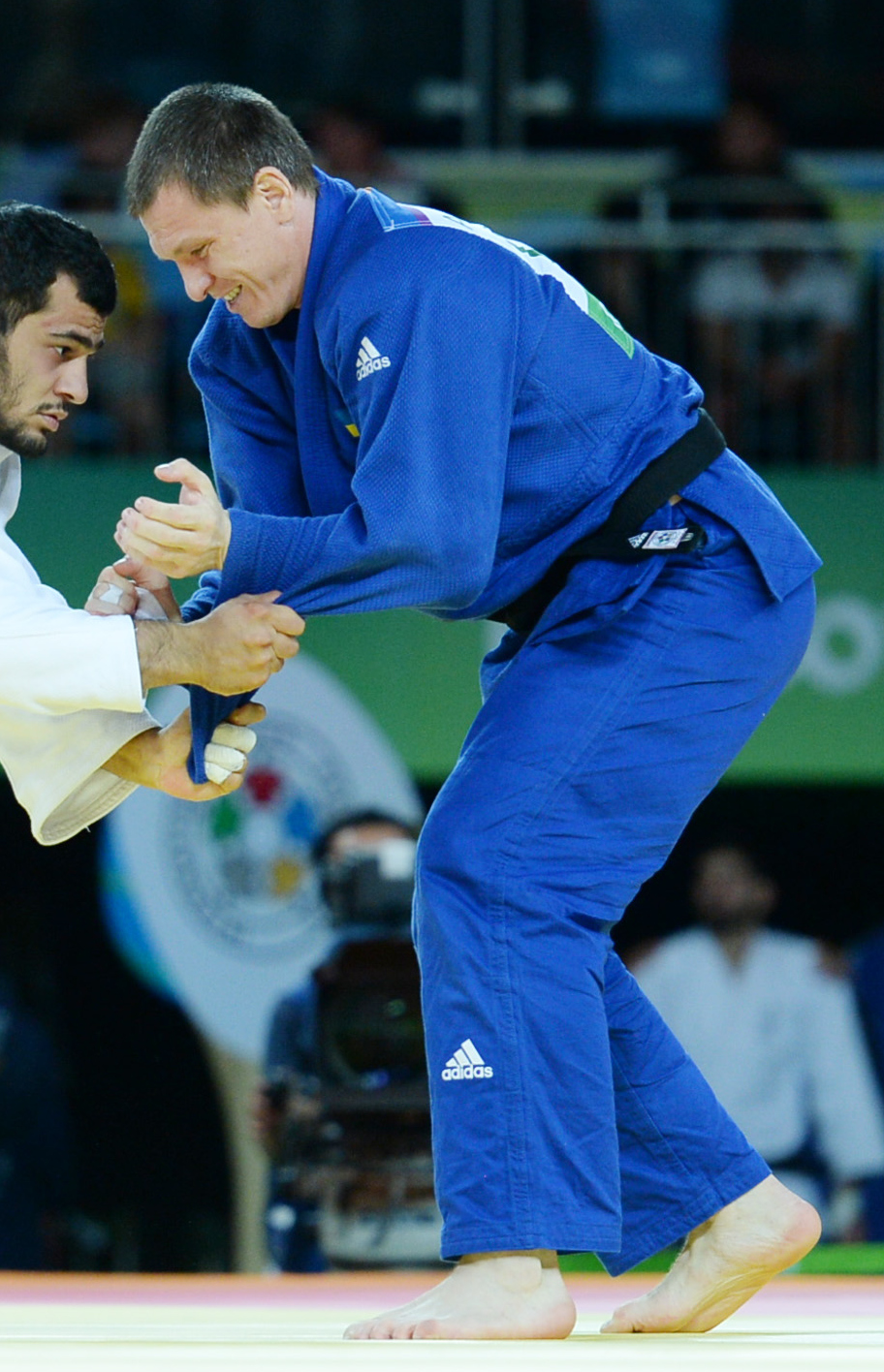 Judo at the 2016 Summer Olympics, Gasimov vs Bloshenko